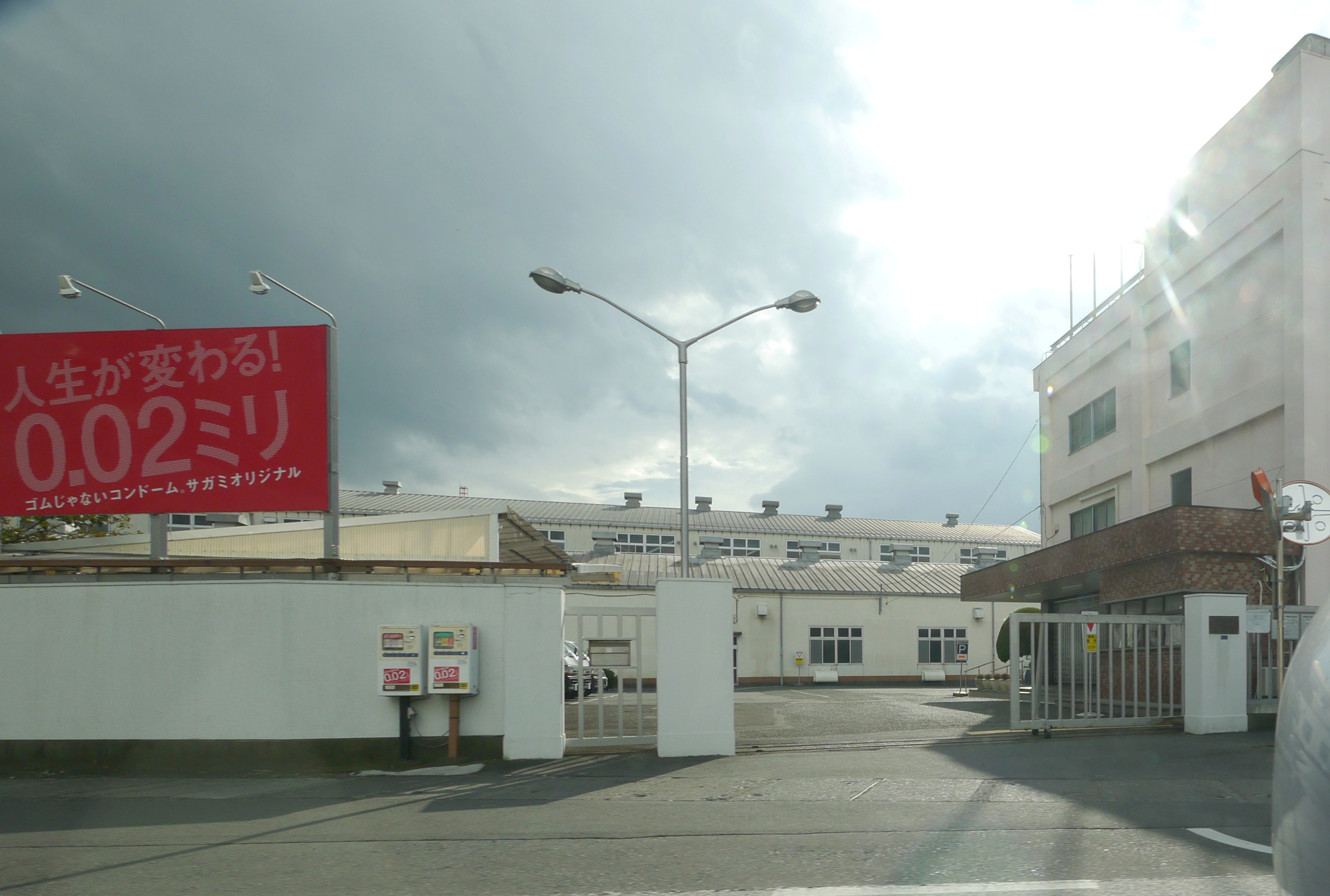 Sagami Rubber Industries Co., Ltd. Head Office